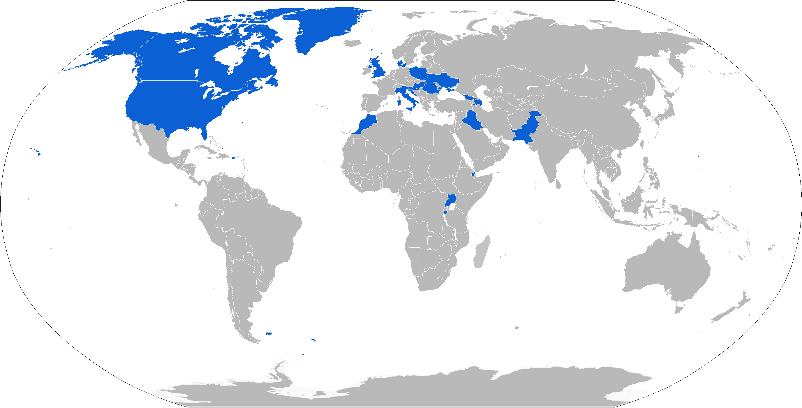 Map of Cougar operators in blue